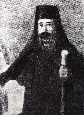 Ecumenical Patriarch Anthimus III - National Documentation Center, Gedeon, Manuel, Mention of the prize: 1800 - 1863 - 1913, Athens 1934